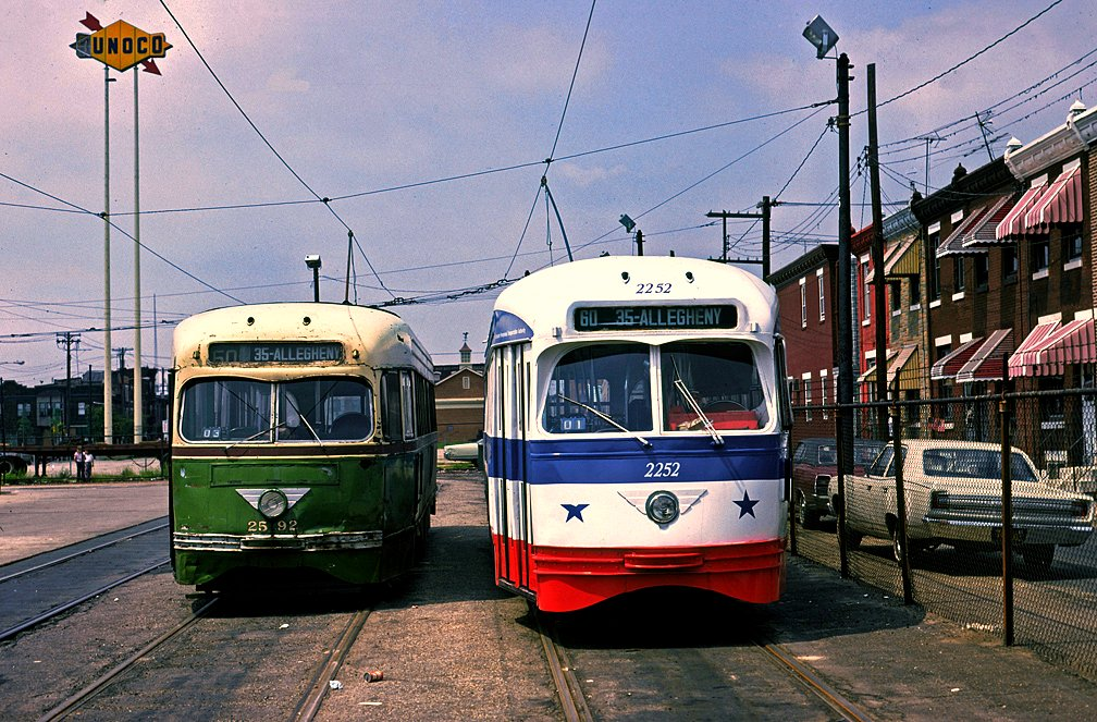 Philadelphia: Two cars in service on the former streetcar route 60 (now abandoned) at the terminal it shared with the #15. May 1976